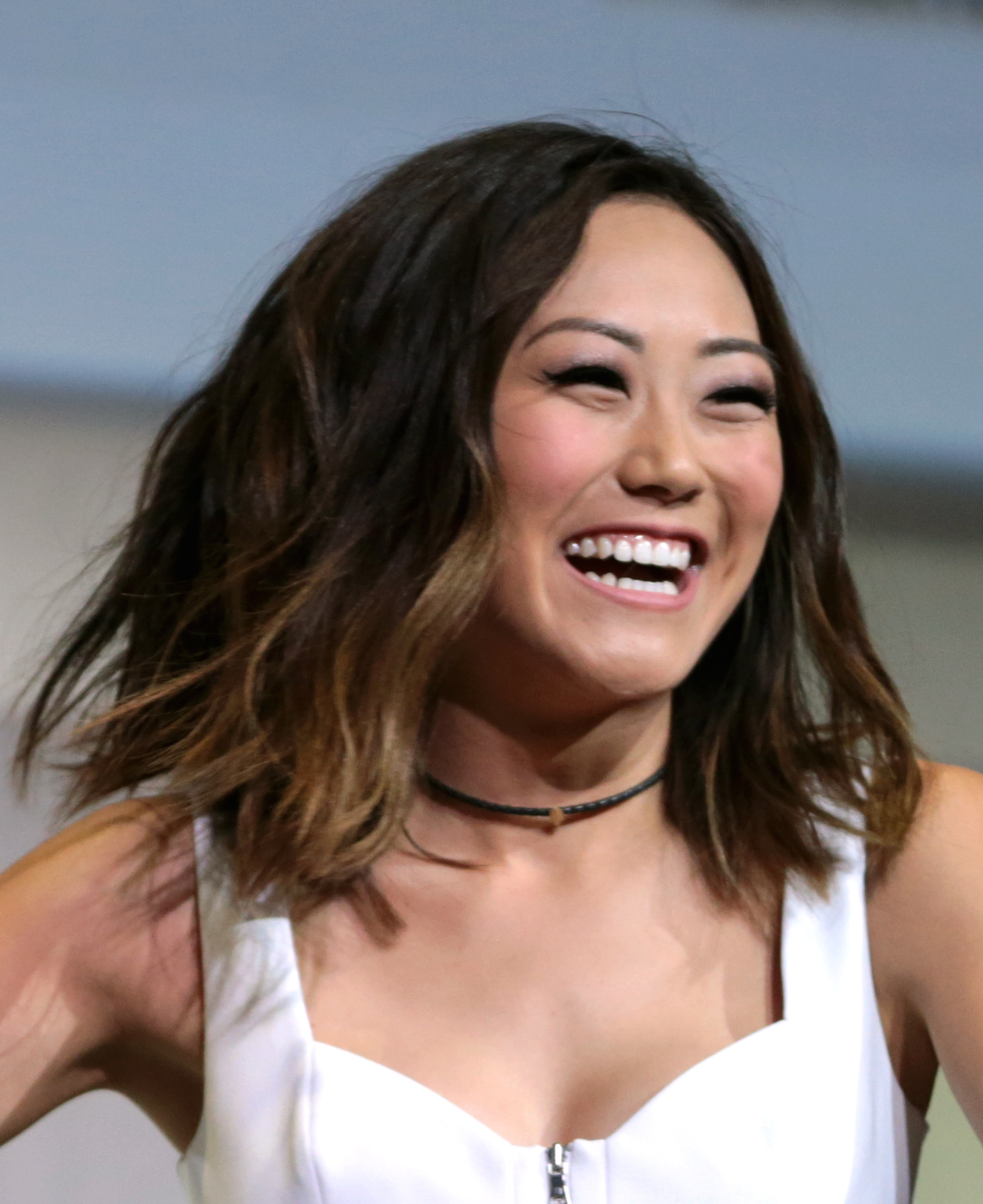 Karen Fukuhara speaking at the 2016 San Diego Comic Con International, for "Suicide Squad", at the San Diego Convention Center in San Diego, California.